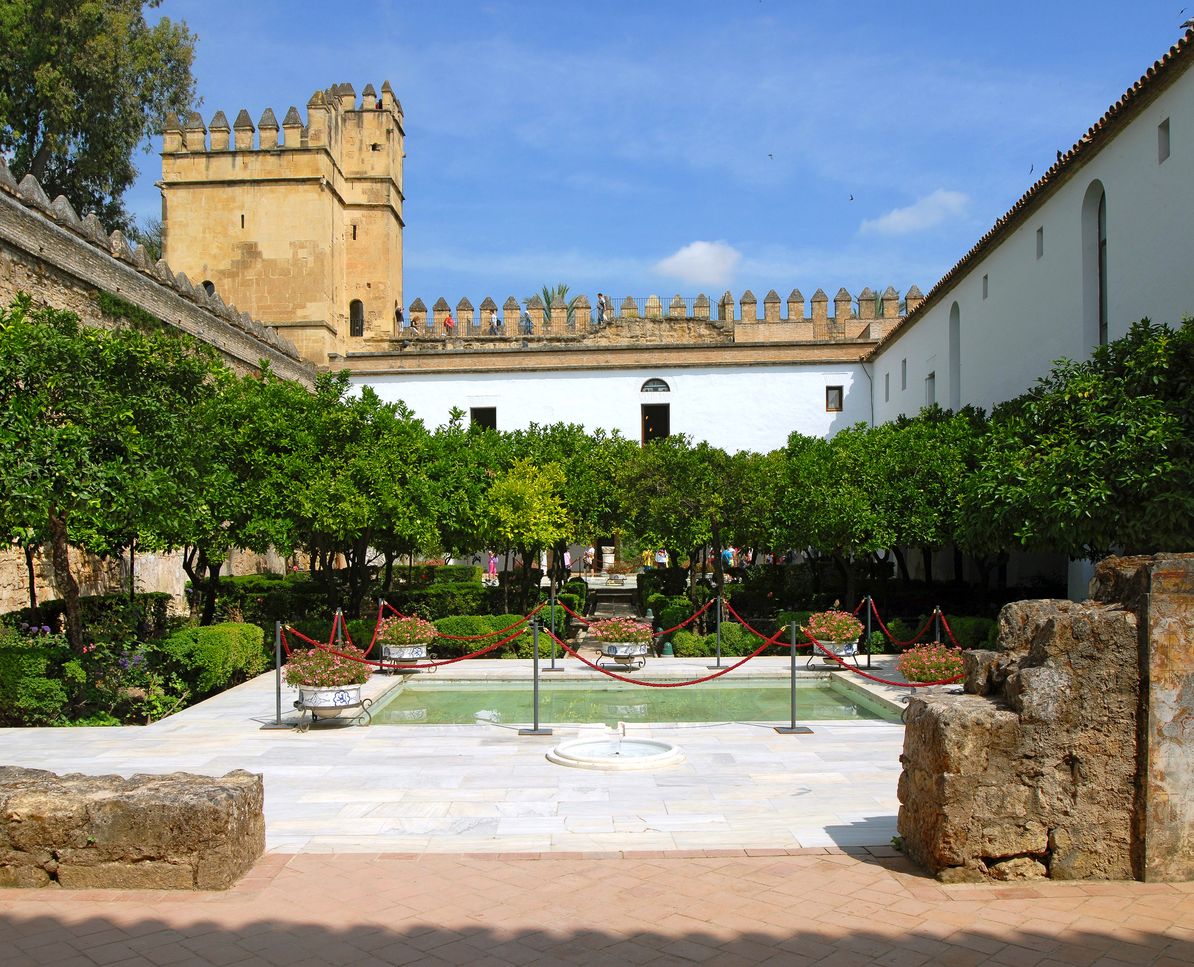 Alcazar gardens in Cordoba